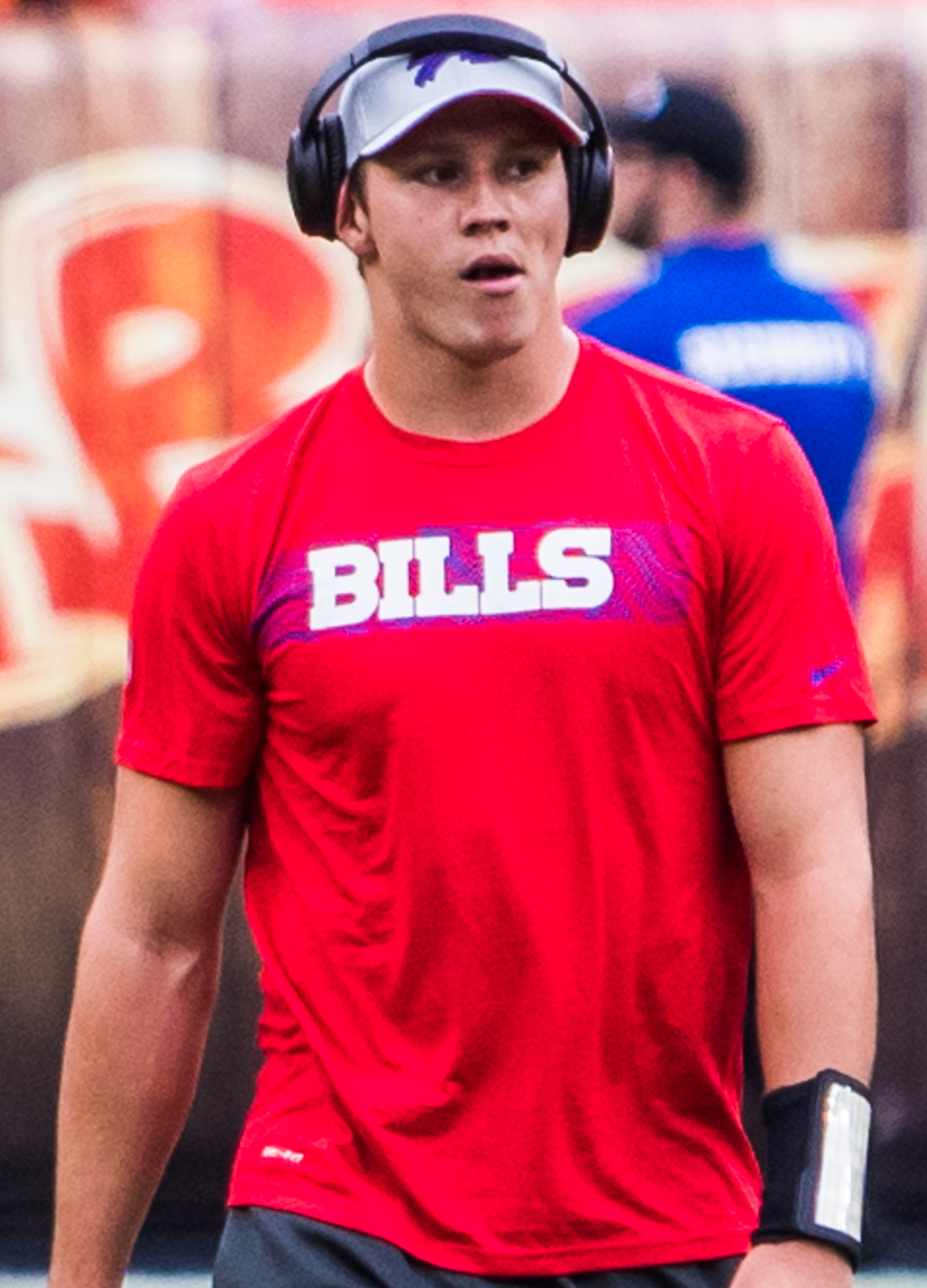 Josh Allen